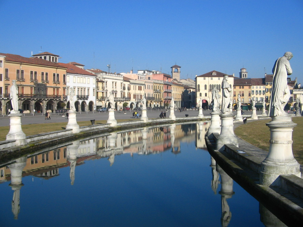 Vista del Prato della Valle, Padova - Italia, con il particolare canale che circonda la piazza. A view of Prato della Valle, Padua - Italy, this is the stream which flows around the square. Taken by Piero tasso on the 22 of January, 2006